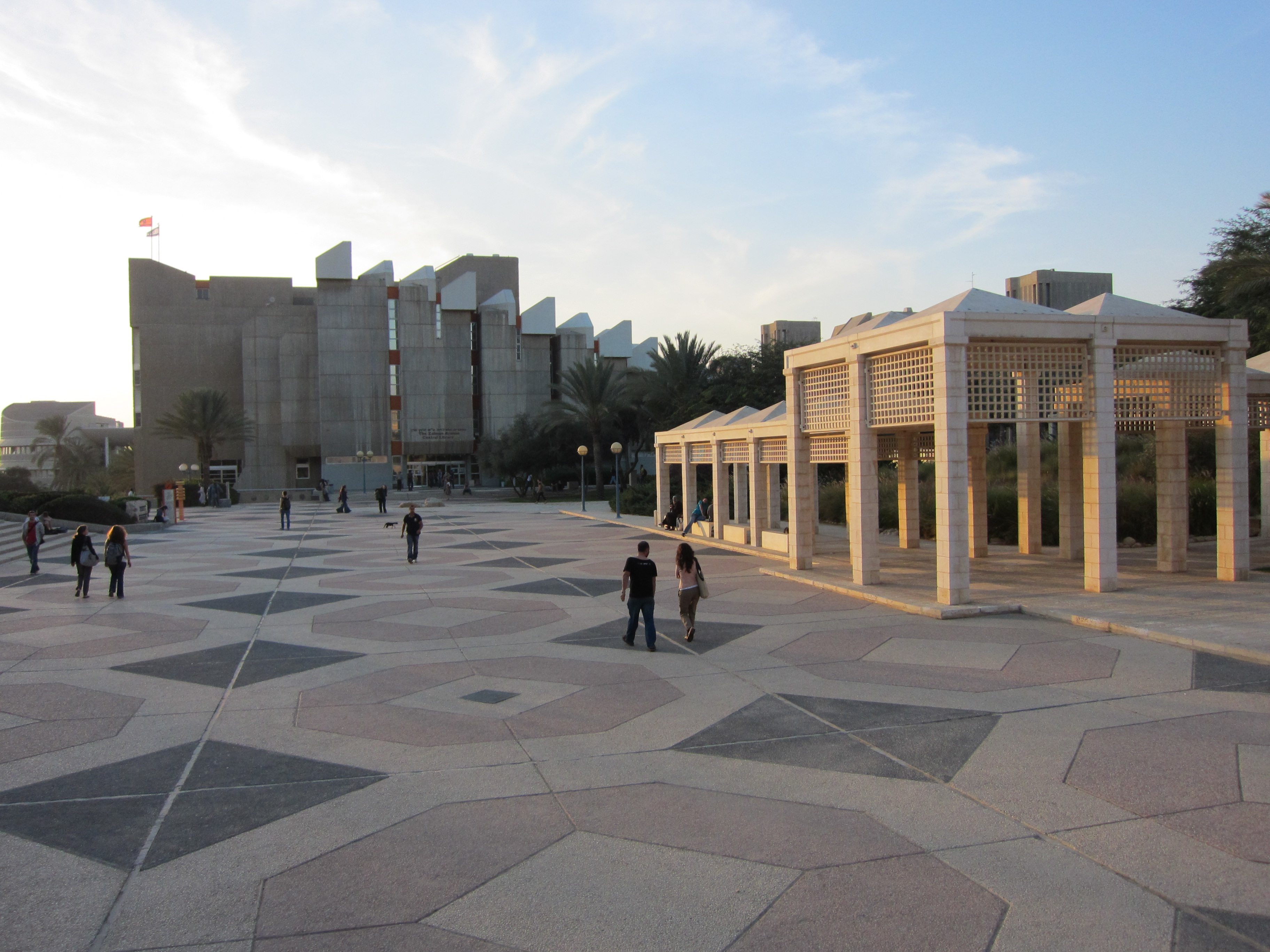 Ben Gurion University of the Negev (Photo: David Saranga)